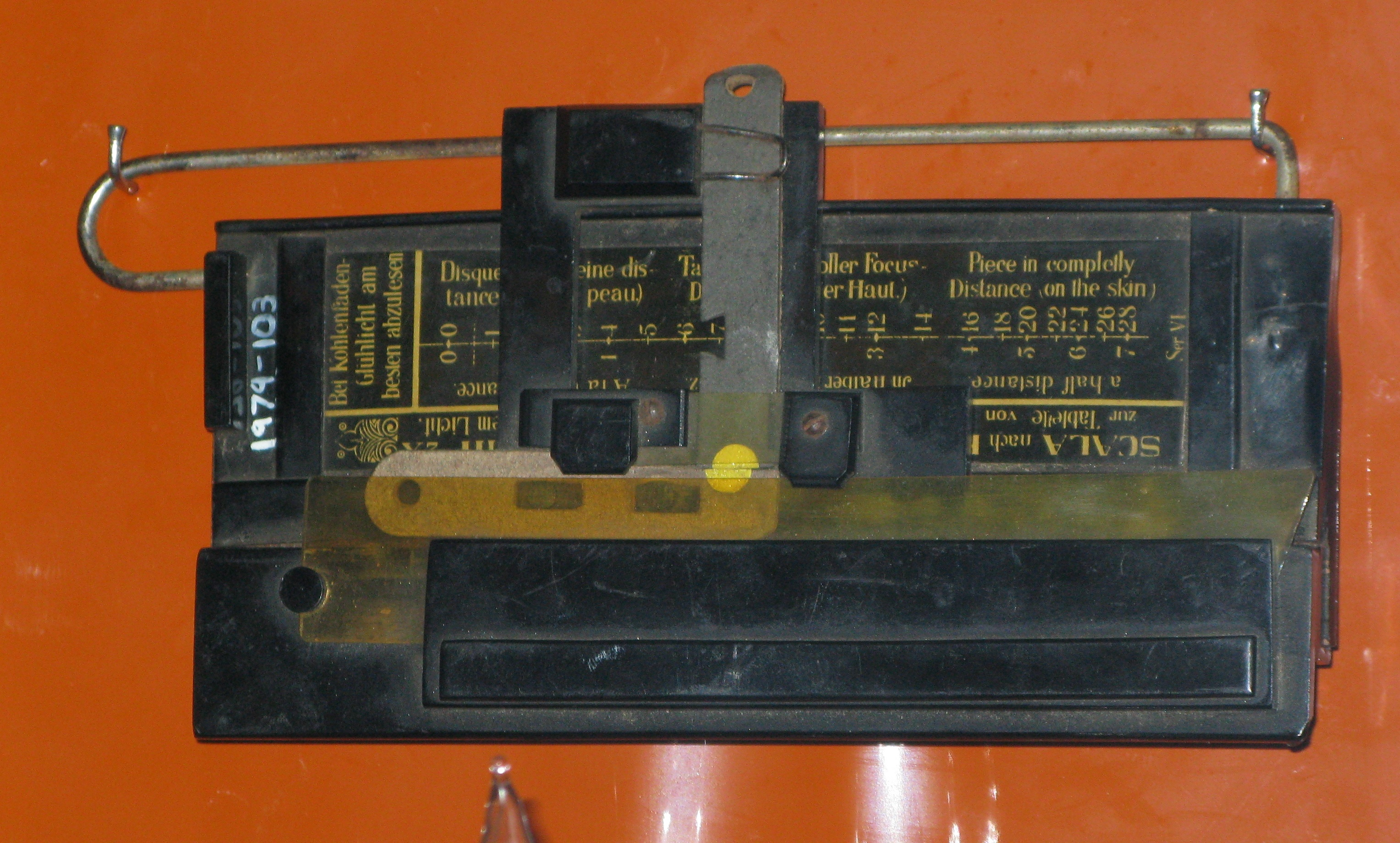 Photo of a Holzknecht Chromoradiometer in the science museum.